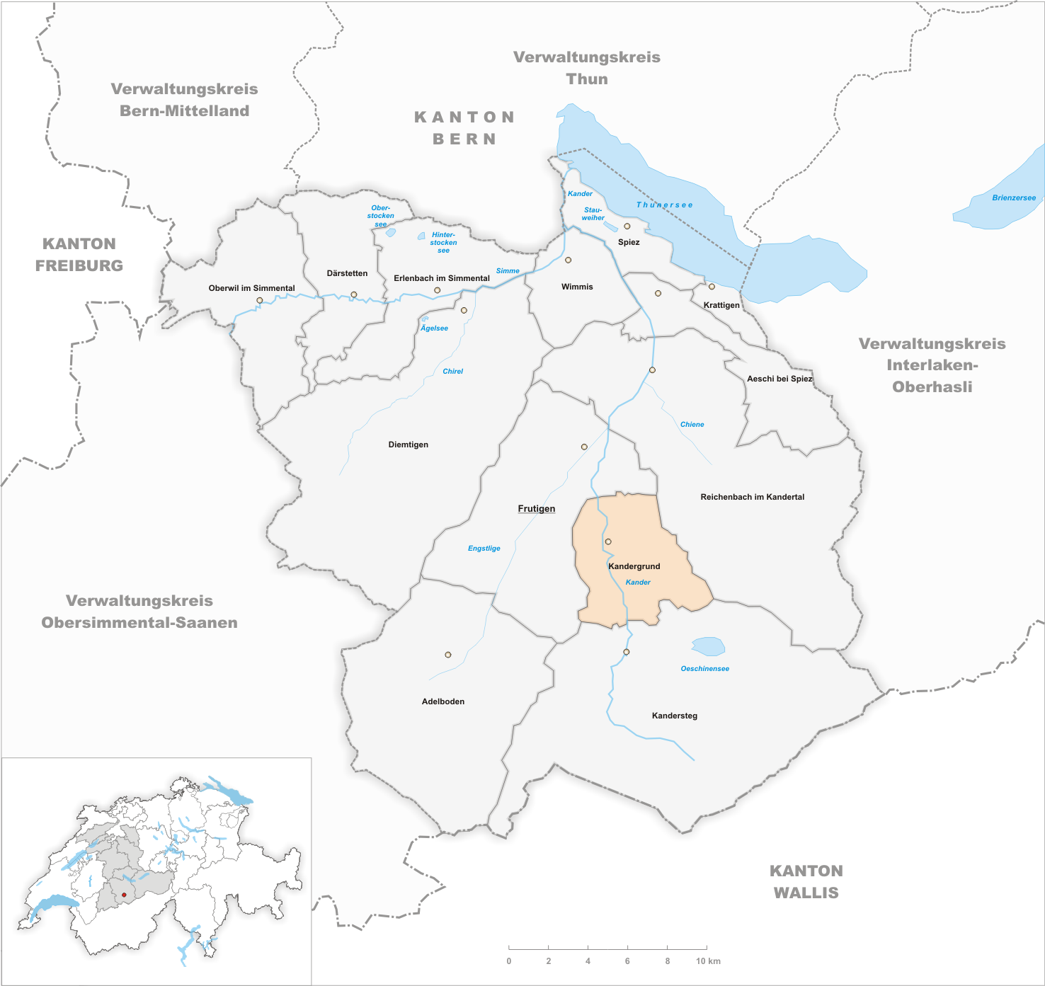 Municipality Kandergrund